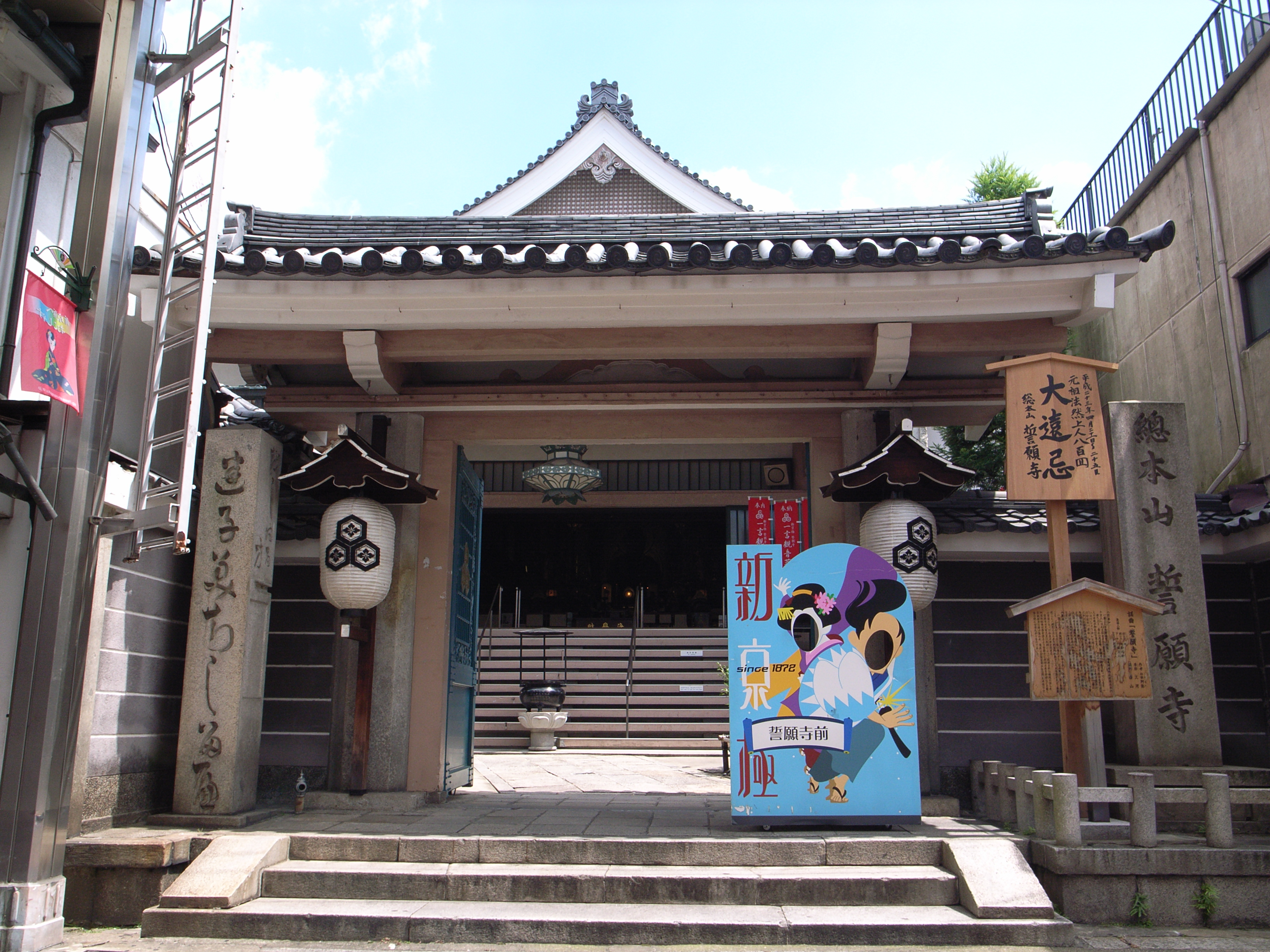 Buddhist temple